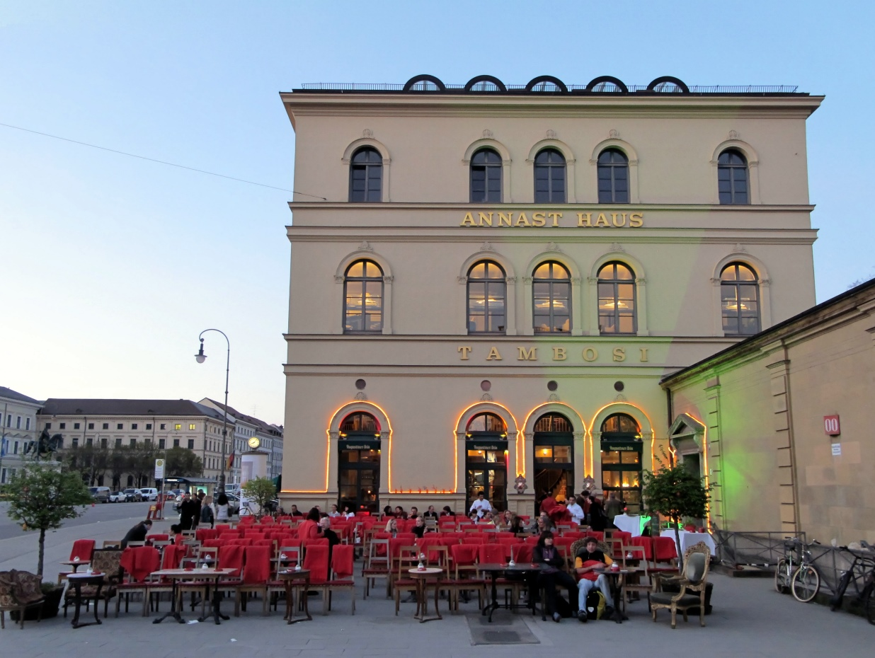 Munich, urban District "Altstadt": historic Annast House, Cafe Tambosi